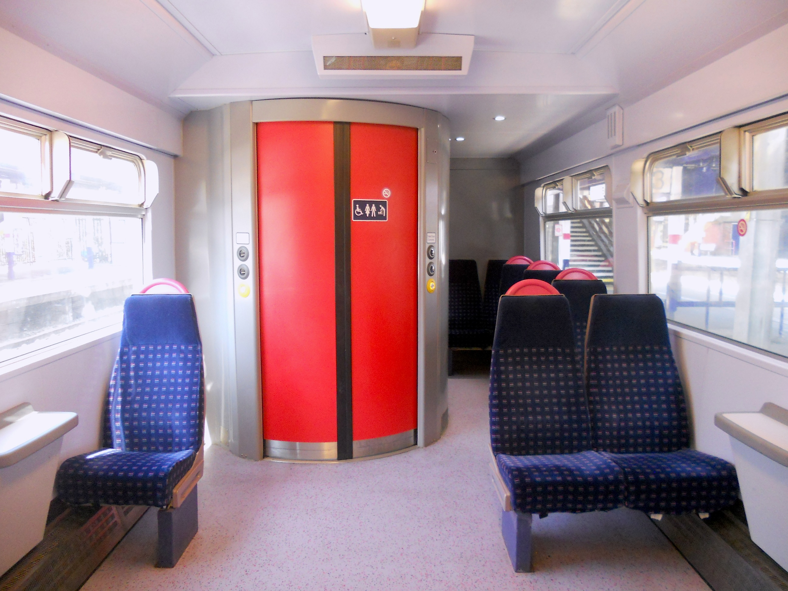 The wheelchair parking places and universal accessible toilet aboard a Thameslink Railway refurbished to PRM TSI specification, Class 319/4 EMU train